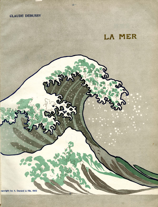 Claude Debussy saw to publication two editions of the full score of La mer. The first was published by Durand in 1905 and bore the famous reproduction of Hokusai's Wave "in various shades of green, blue, tan, and beige" on the cover page.